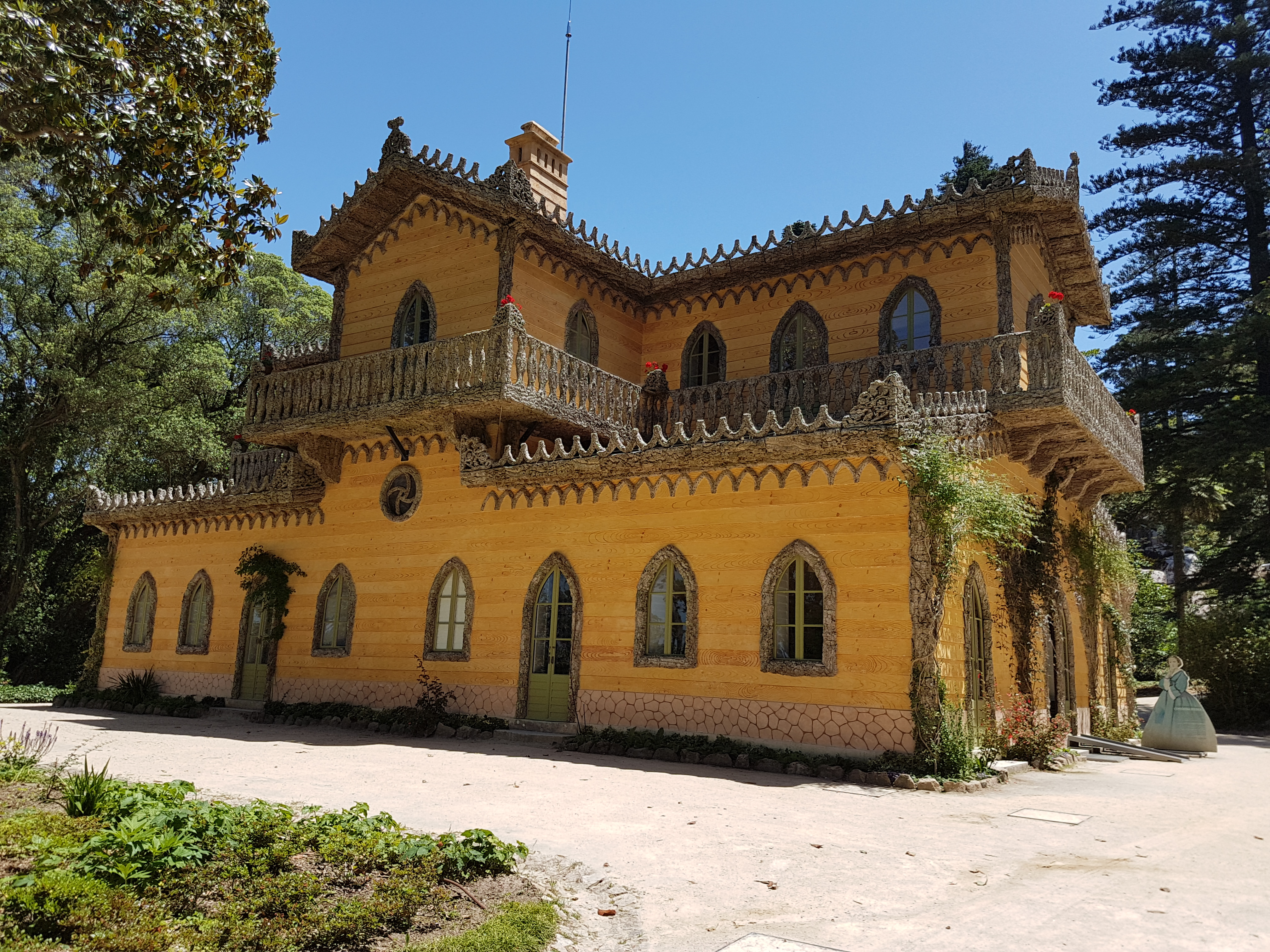 Por favor atribuir créditos a (Please give credit to)